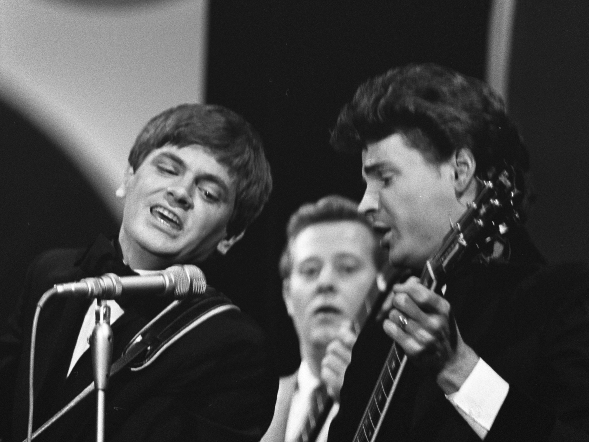 Everly Brothers at Grand Gala du Discque (The Netherlands), 2 Oct. 1965